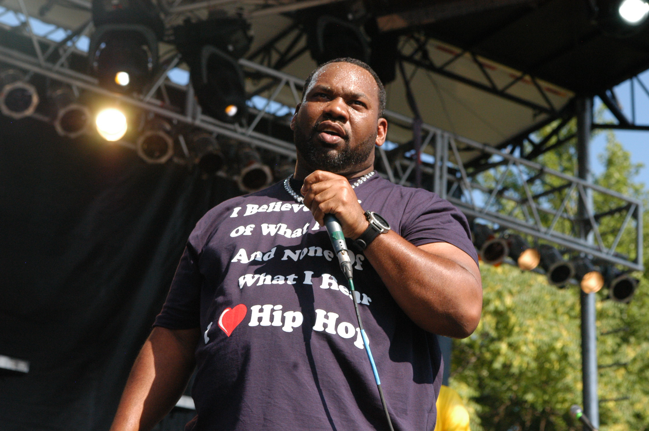 Raekwon at the Pitchfork Music Festival 2010